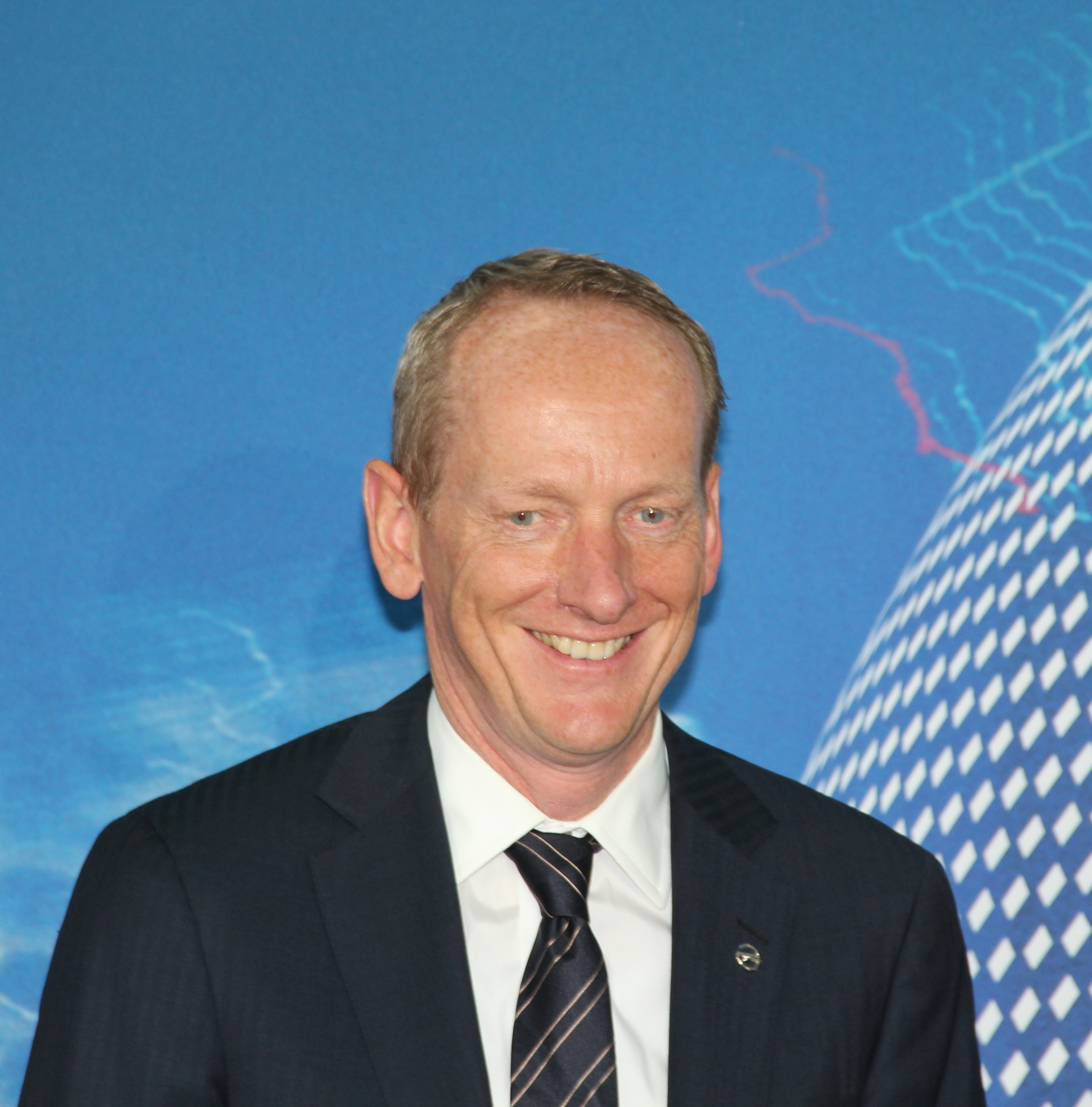 Karl-Thomas Neuman at the Electromobility Summit 2013 in Berlin